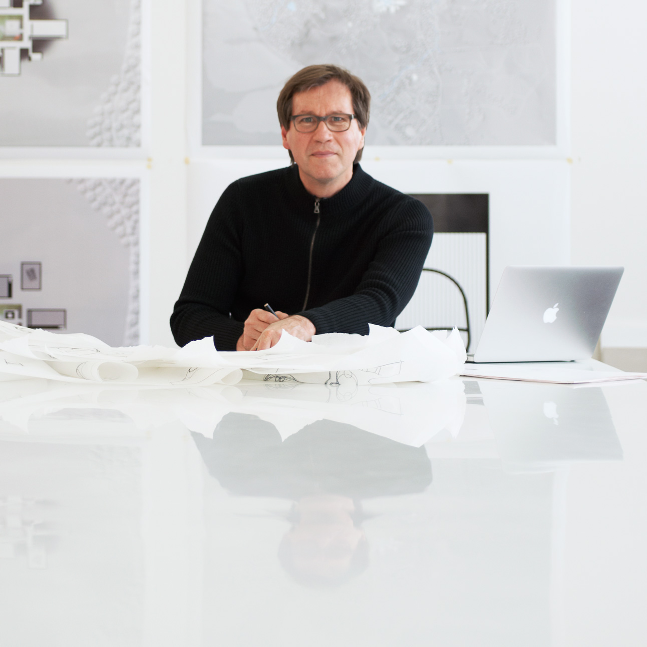 Portrait of Thomas Phifer, New York City area architect.